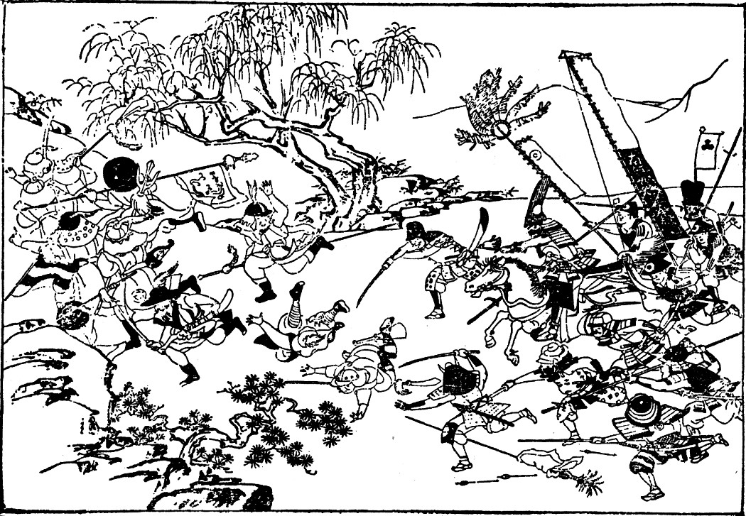 Battle during Japanese-Korean war with Kato Kiyomasa